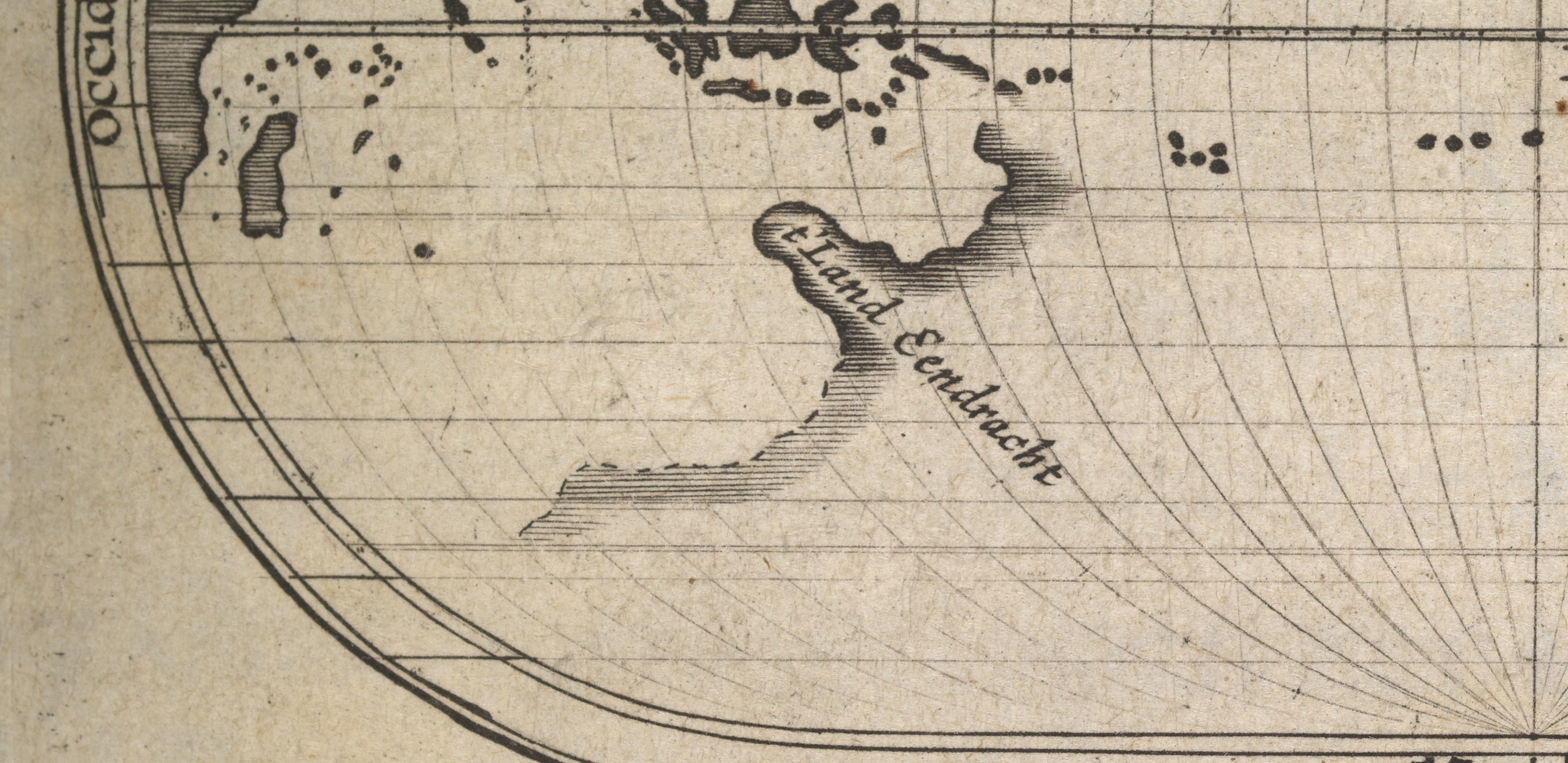 T’ Landt d'Eendracht (Chart of Eendracht Land), in Johannes van Walbeeck and Adolf Decker, Iournael vande Nassausche Vloot onder 't beleydt van den Admirael Jaques l'Heremite, ende Vice-Admirael Gheen Huygen Schapenham, in de Iaren 1623, 1624, 1625, en 1626, Amsterdam, Hessel Gerritsz ende Iacob Pietersz Wachter 1626, title page